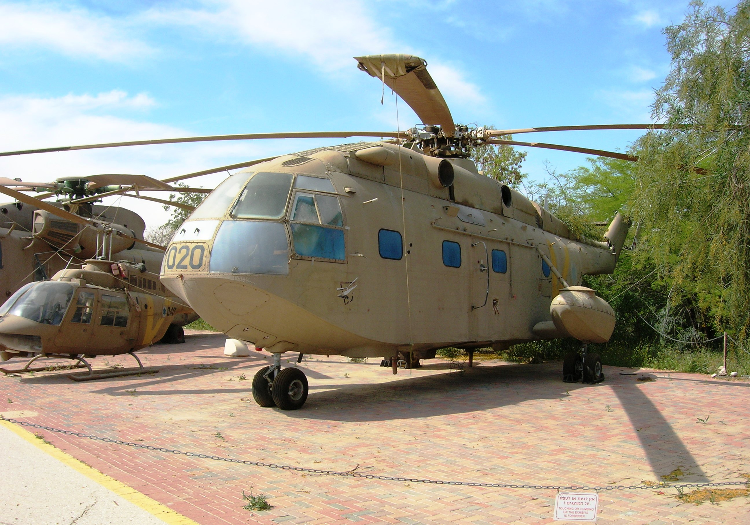 Aerospatiale Sid-Aviation SA-321K Super-Frelon Helicopter